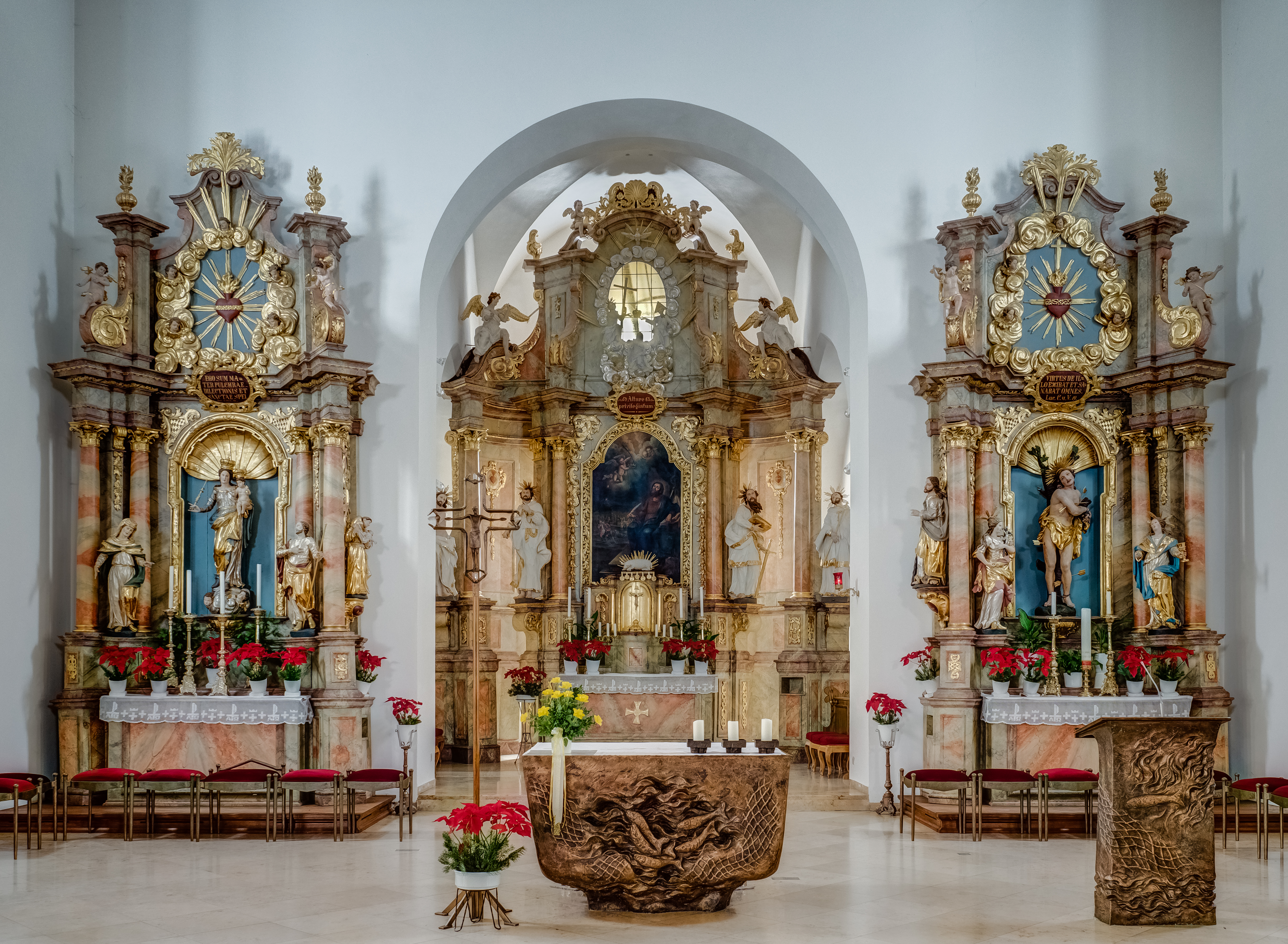 Chancel of the Catholic Parish Church St. Mark in Bischberg near Bamberg